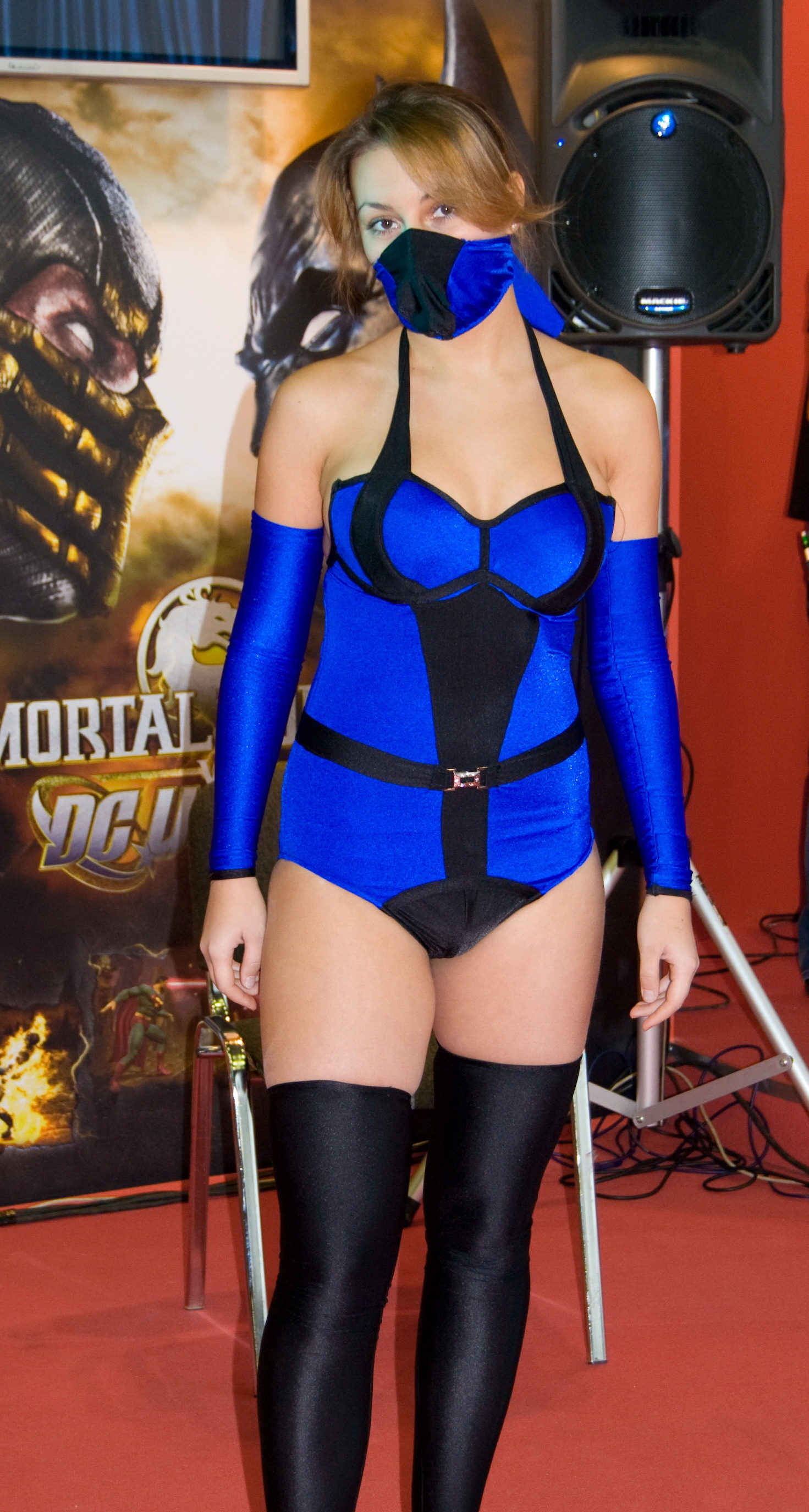 MK vs DC girl on Igromir 2008